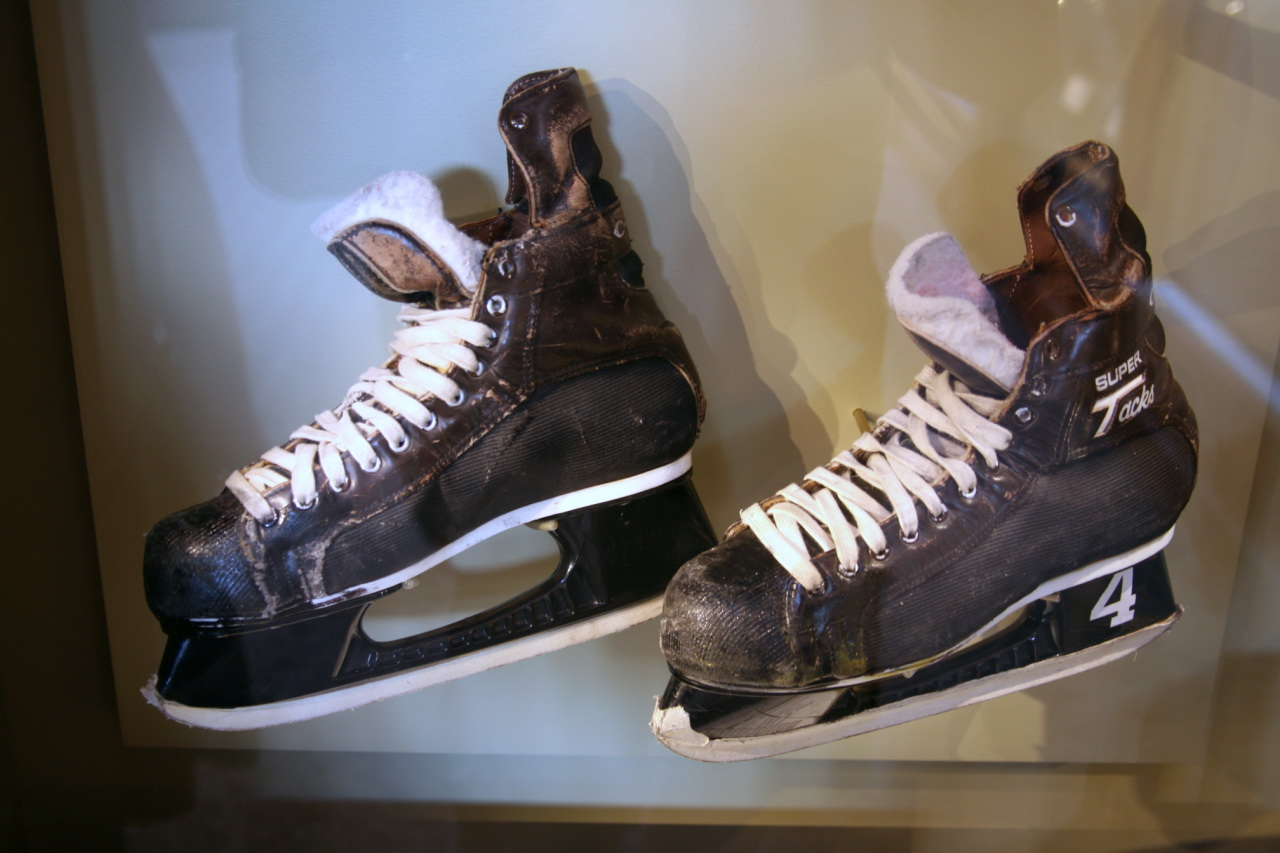 In his twelve seasons with the Boston Bruins, Bobby Orr won Rookie of the Year, three MVP’s, and eight best defenseman awards. He was elected to the Hockey Hall of Fame in 1979. (Museum of American History – Behring Center)